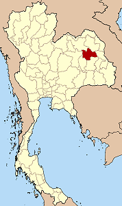 Map of Thailand highlighting Kalasin province